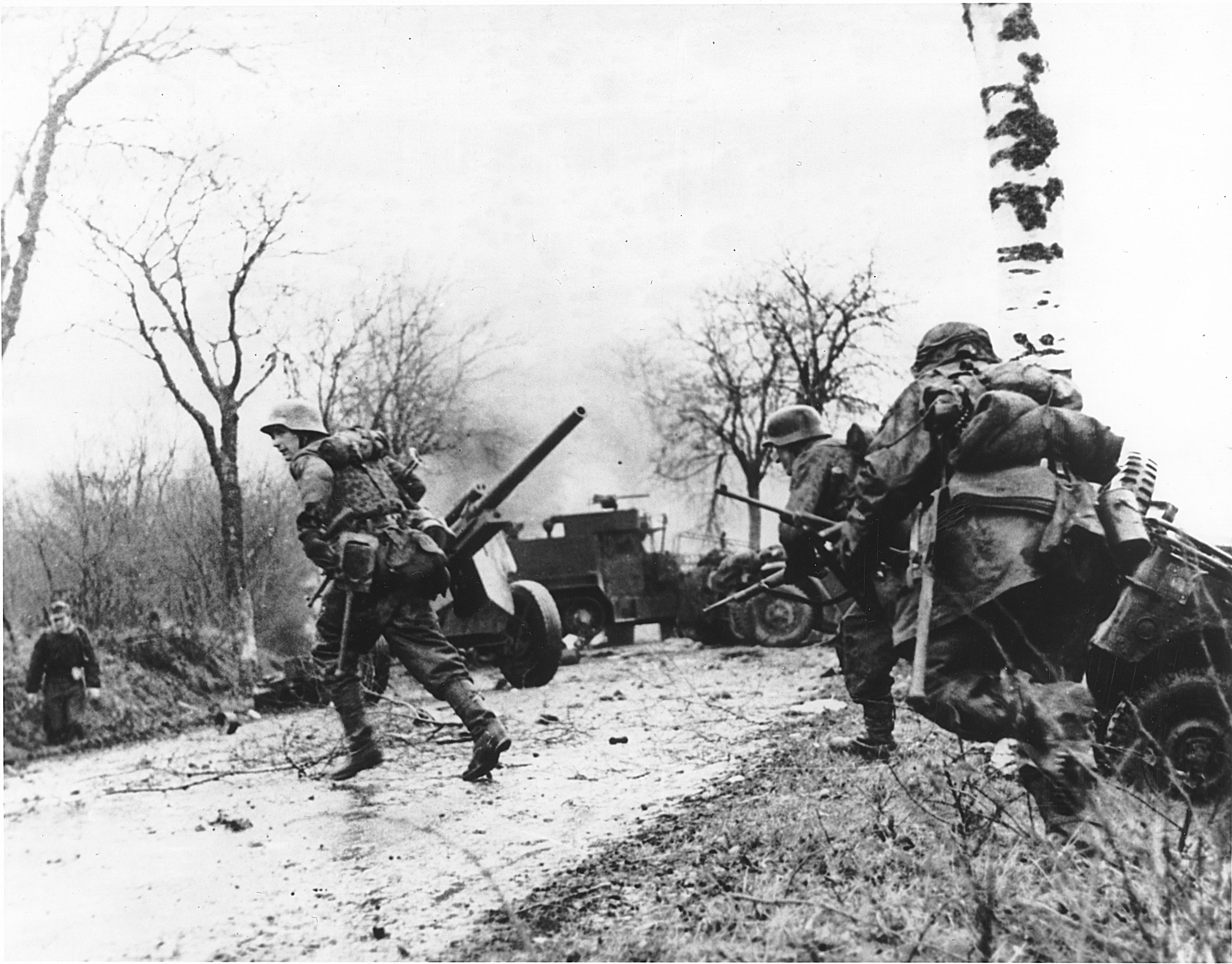 Panzergrenadier-SS Kampfgruppe Hansen in action during clashes in Poteau against Task Force Myers, 18 December 1944.